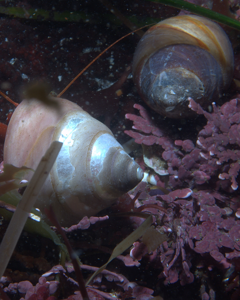 Tegula montereyi (Kiener, 1850) (synonym: Chlorostoma montereyi)